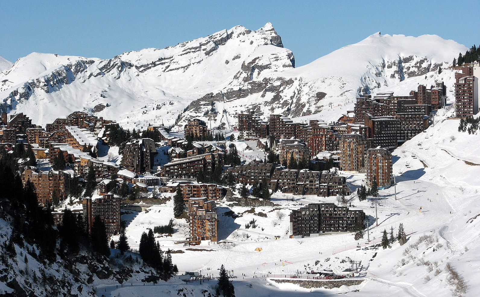 Avoriaz France